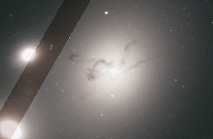 Dust lanes at Galaxy NGC 6166 core. (HST - ACS: 475 and 2x814 nm; WFPC2: 555 nm)